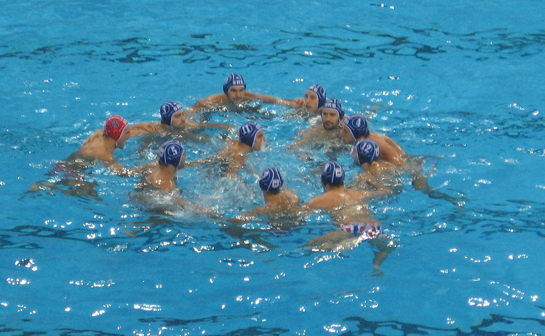 Men's Water Polo team from Serbia before a game in the 2008 Olympics in Beijing. Team got 3rd, bronze medal. Used at Serbia men's national water polo team Feel free to place elsewhere.